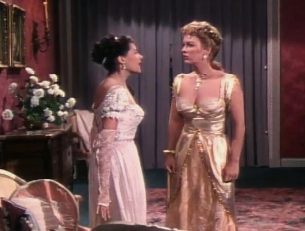 Yvonne De Carlo (left) & Andrea King in Buccaneer's Girl - trailer (cropped screenshot)